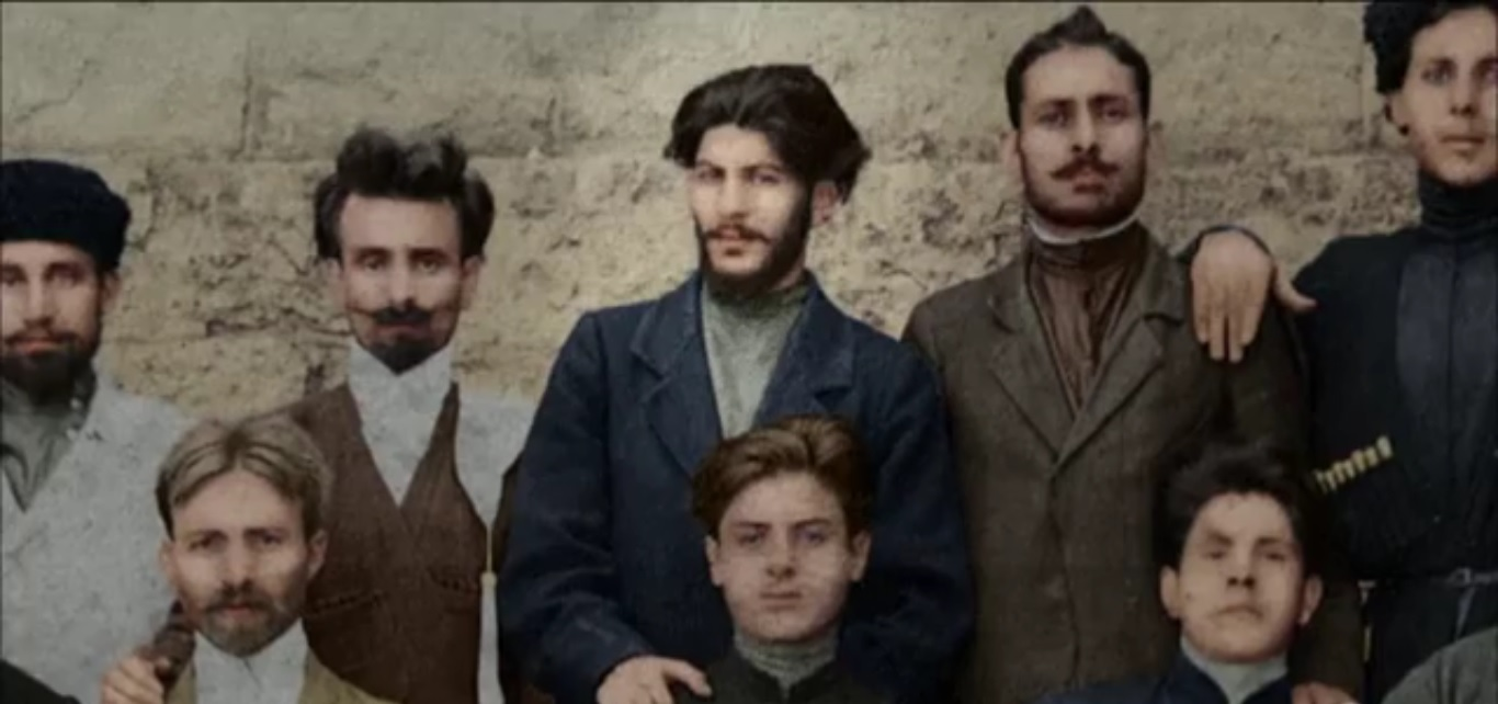 Stalin with a group of prisoners at the Kutais jail, 1903